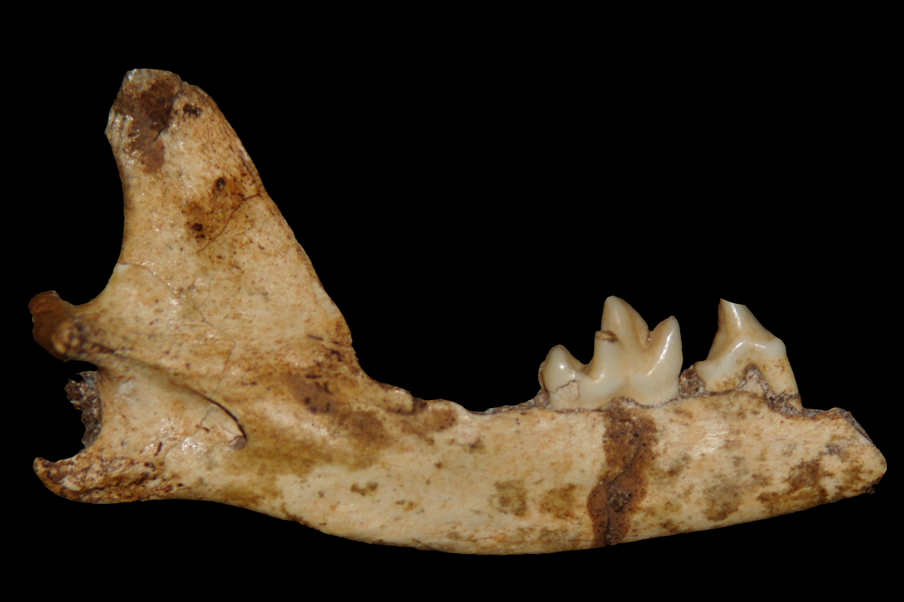 The mandible of Vulpes skinneri. Malapa site, South Africa